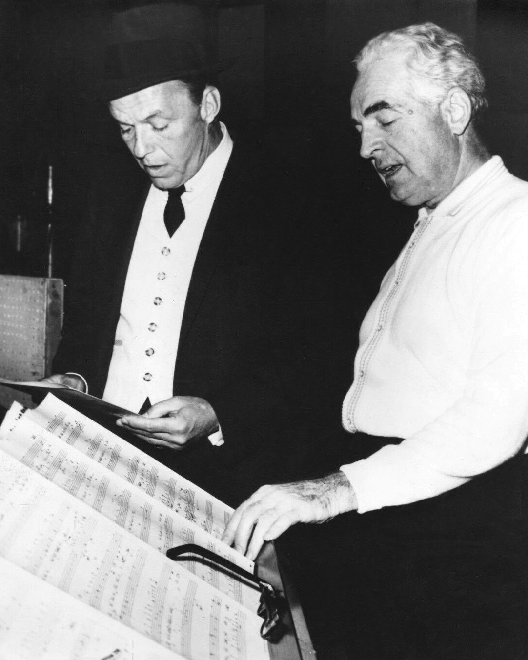 Publicity photo of Frank Sinatra and Fred Waring in the studio. They recorded two albums with Bing Crosby in 1964: America, I Hear You Singing and 12 Songs of Christmas.